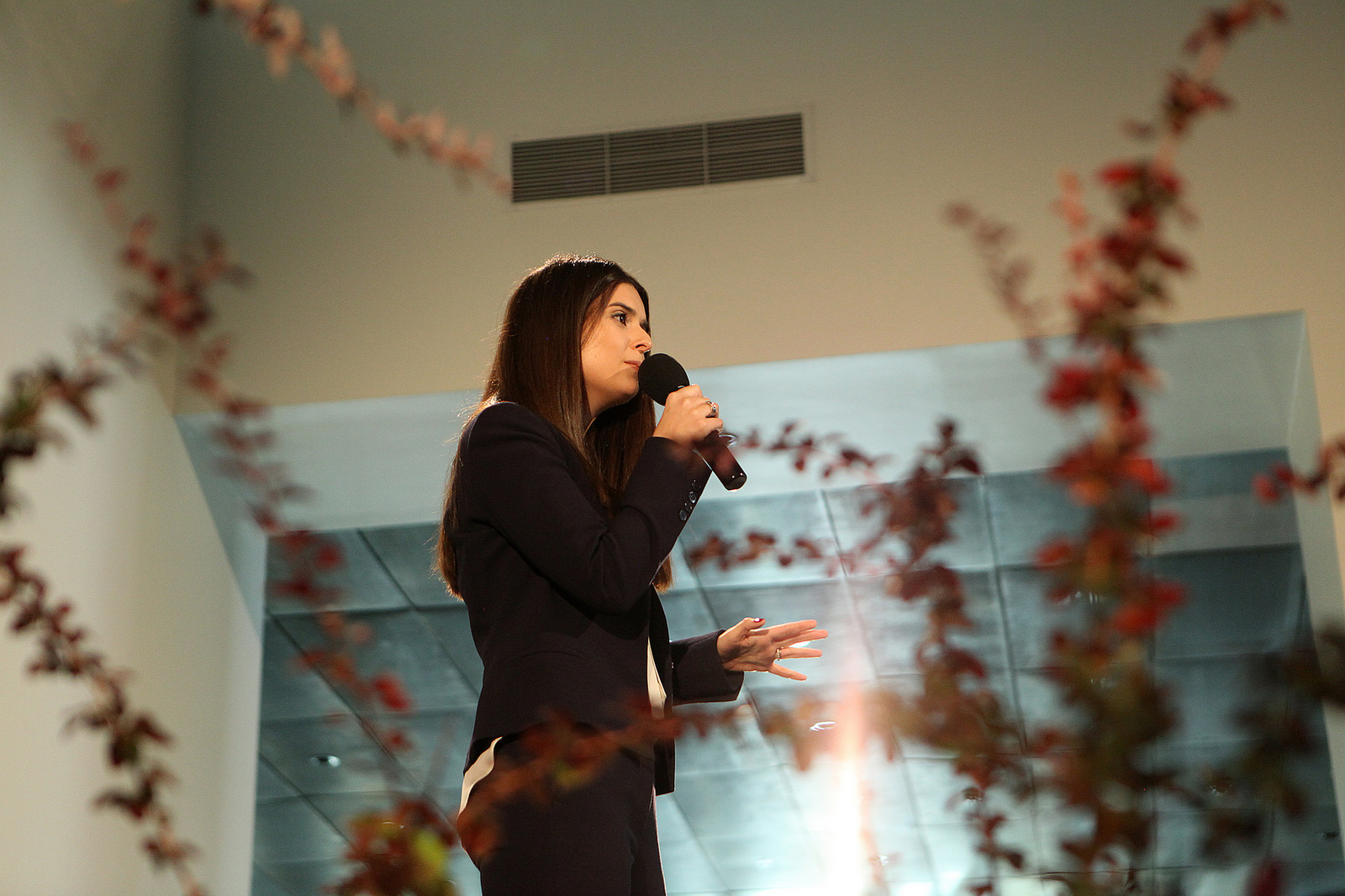 Hovannisian at Tedx, in October 2016 Depicted person: Larisa Hovannisian – Armenian American social entrepreneur and education activist